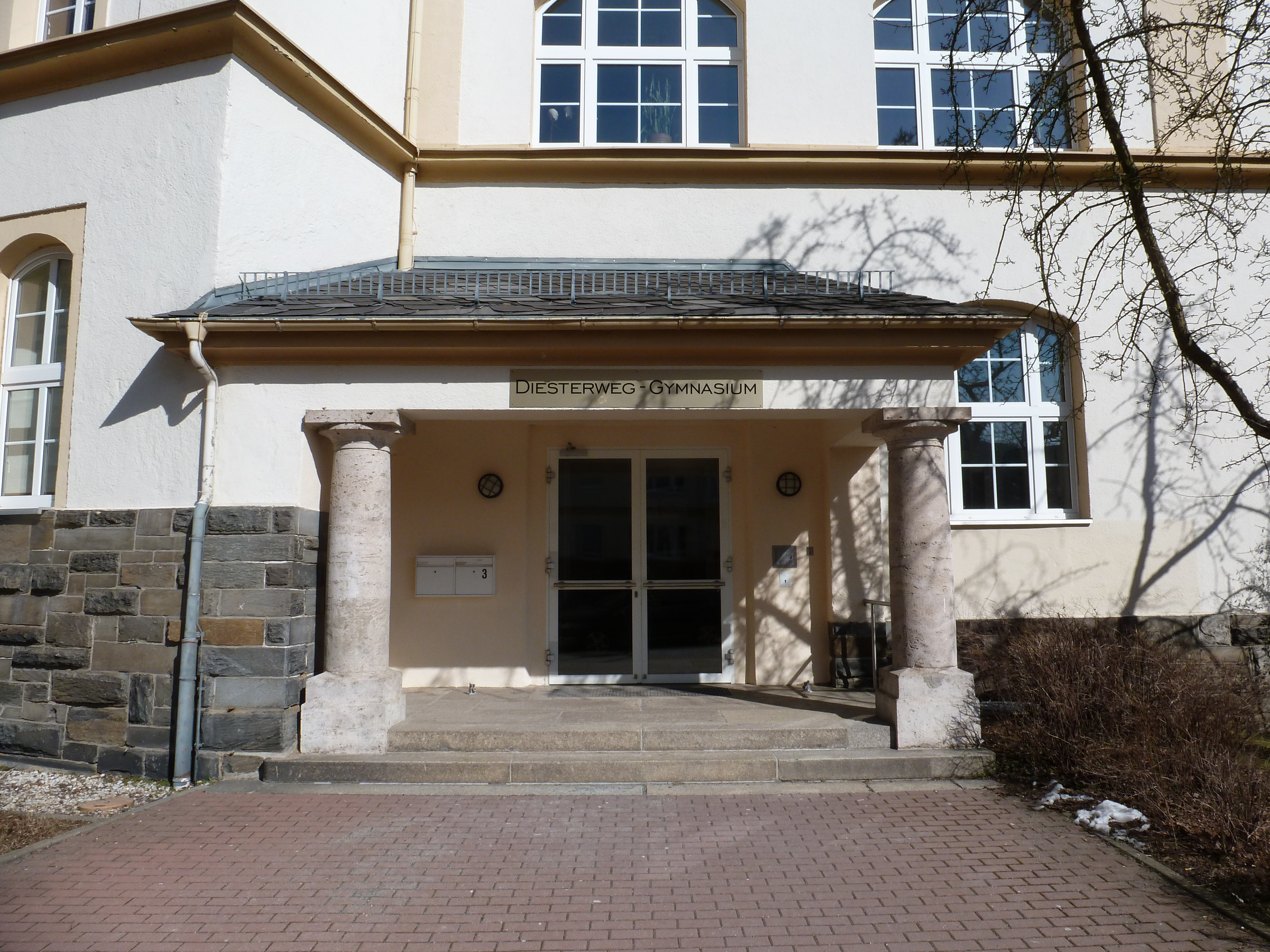 Diesterweg gymnasium Plauen, view to the main entrance